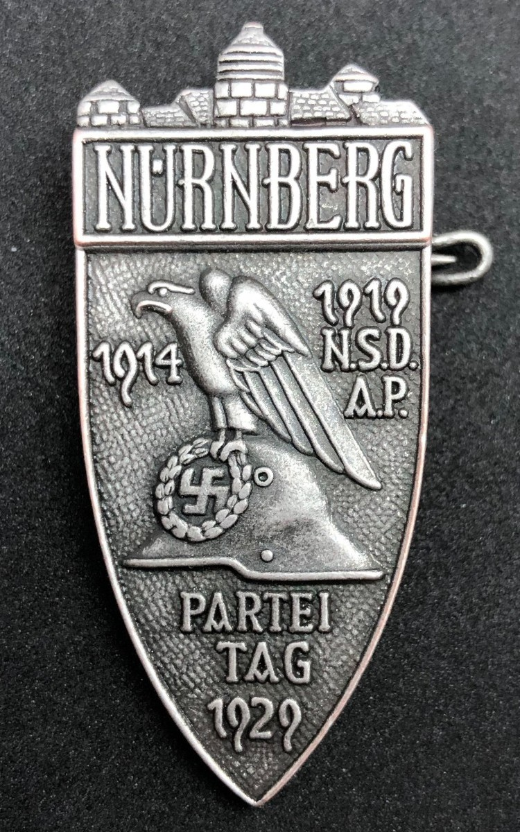 This badge was awarded to Party members who attended the first-ever National NSDAP rally in the city of Nuremberg in 1929.